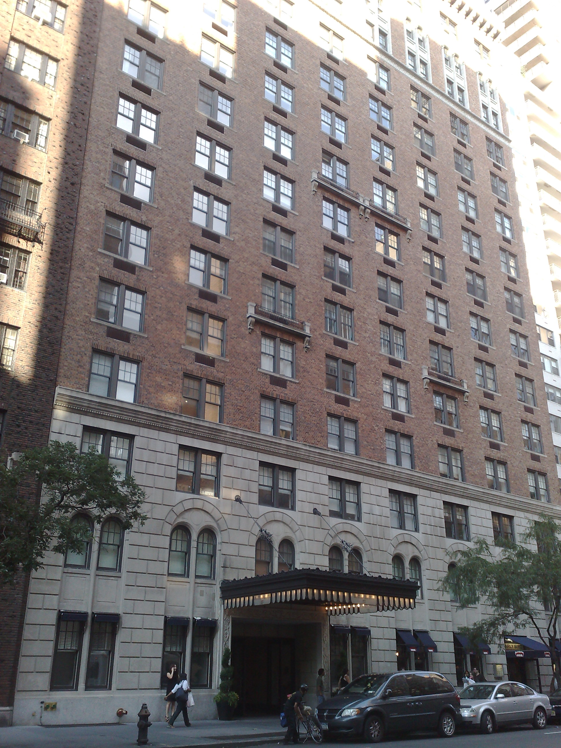 This photo is of Wikis Take Manhattan goal code A3, Olcott Hotel.